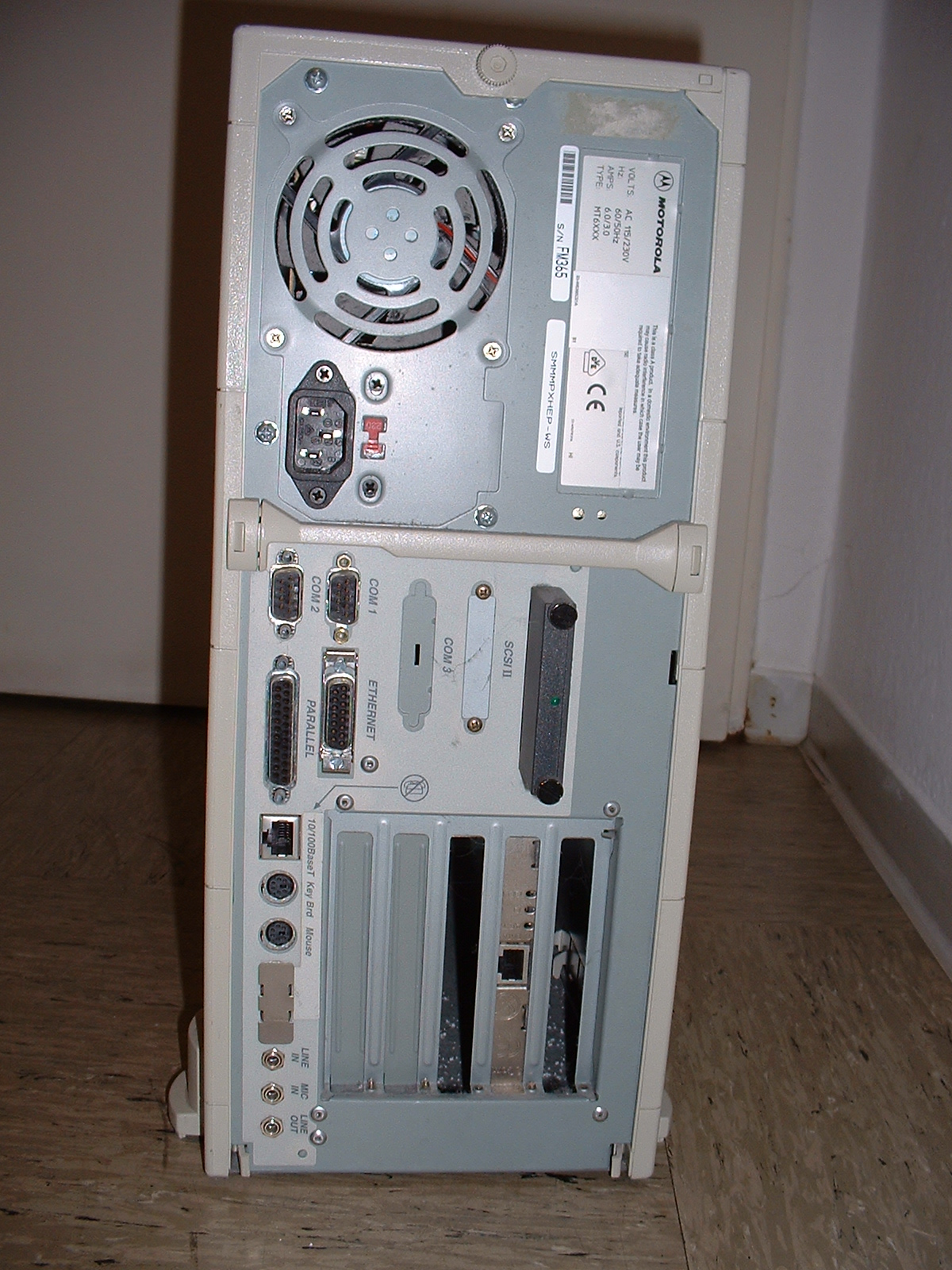 Back of a Motorola Powerstack II. It is a PPC PreP machine with Openfirmware, 64 MB RAM and 300 Mhz PPC CPU.